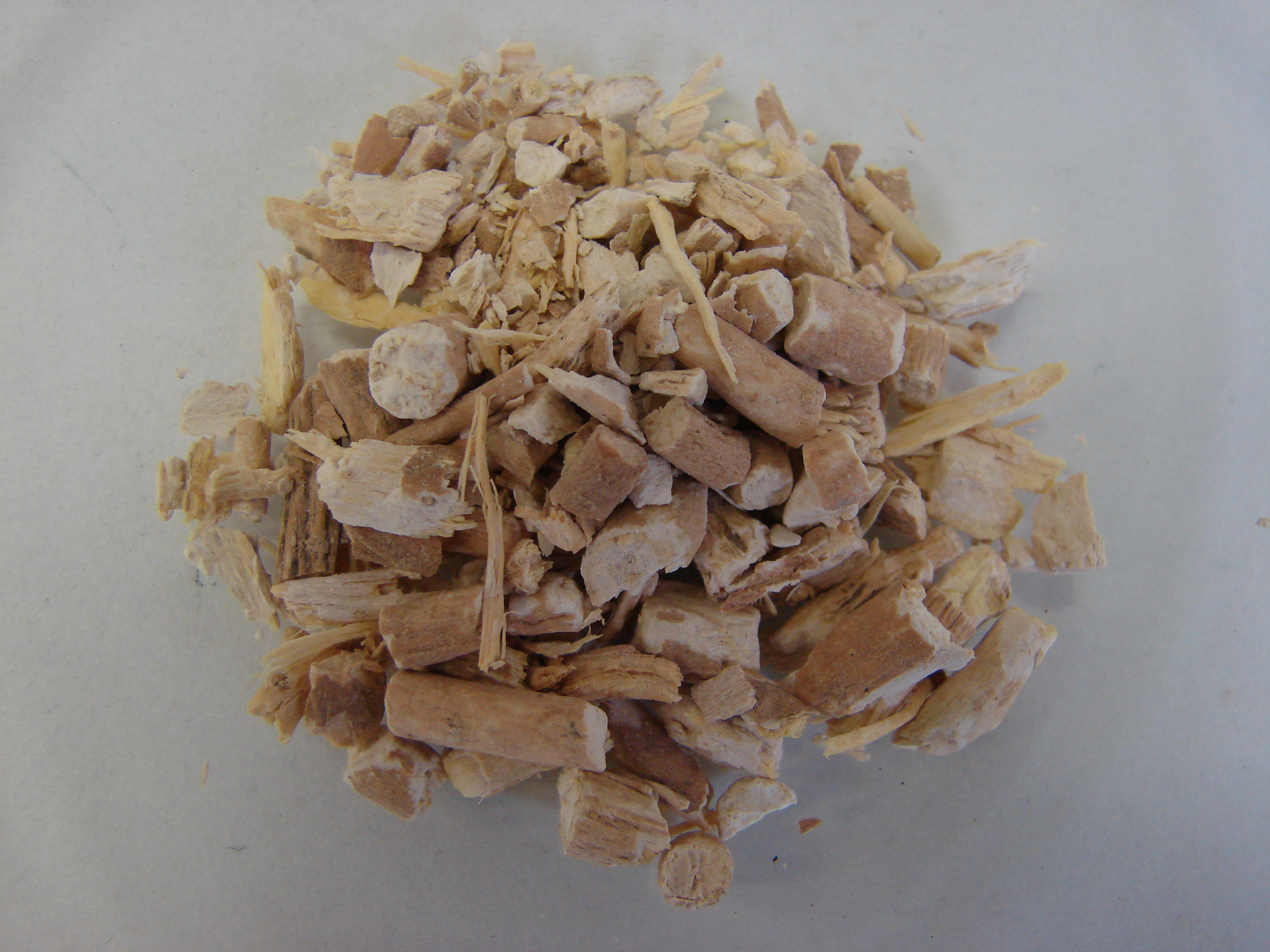 Withaniae radix, Withania somnifera